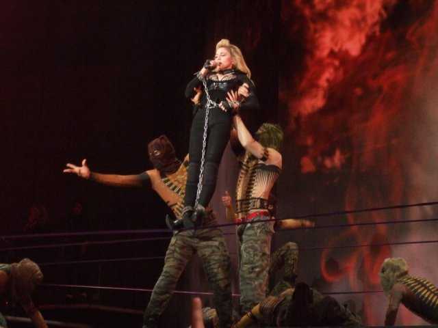 Madonna concert in Barcelona